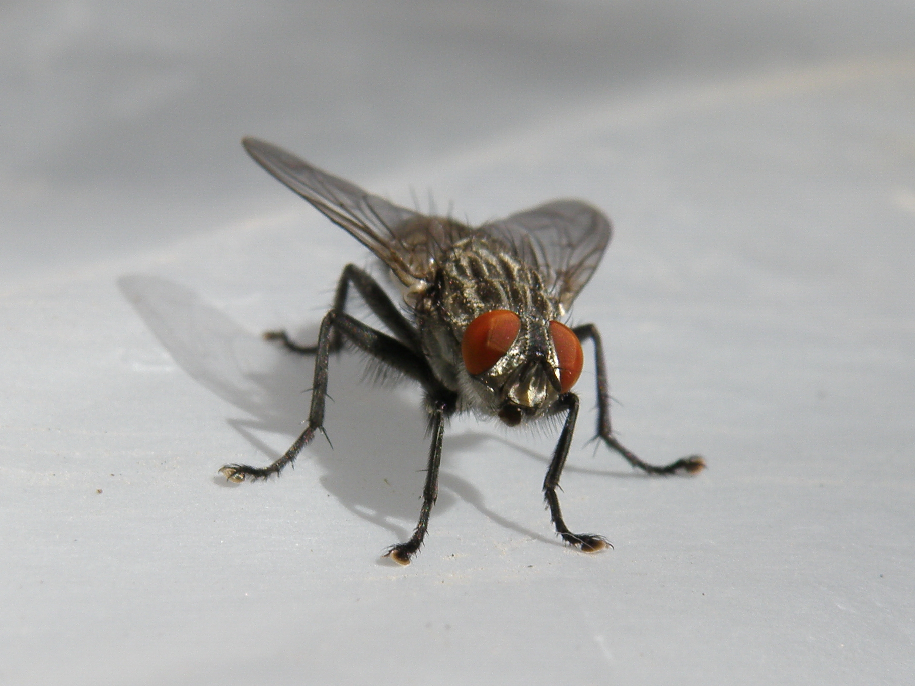 Housefly